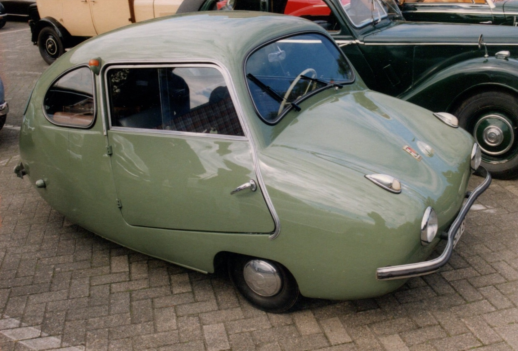 A threewheeler, built during the German post-war era